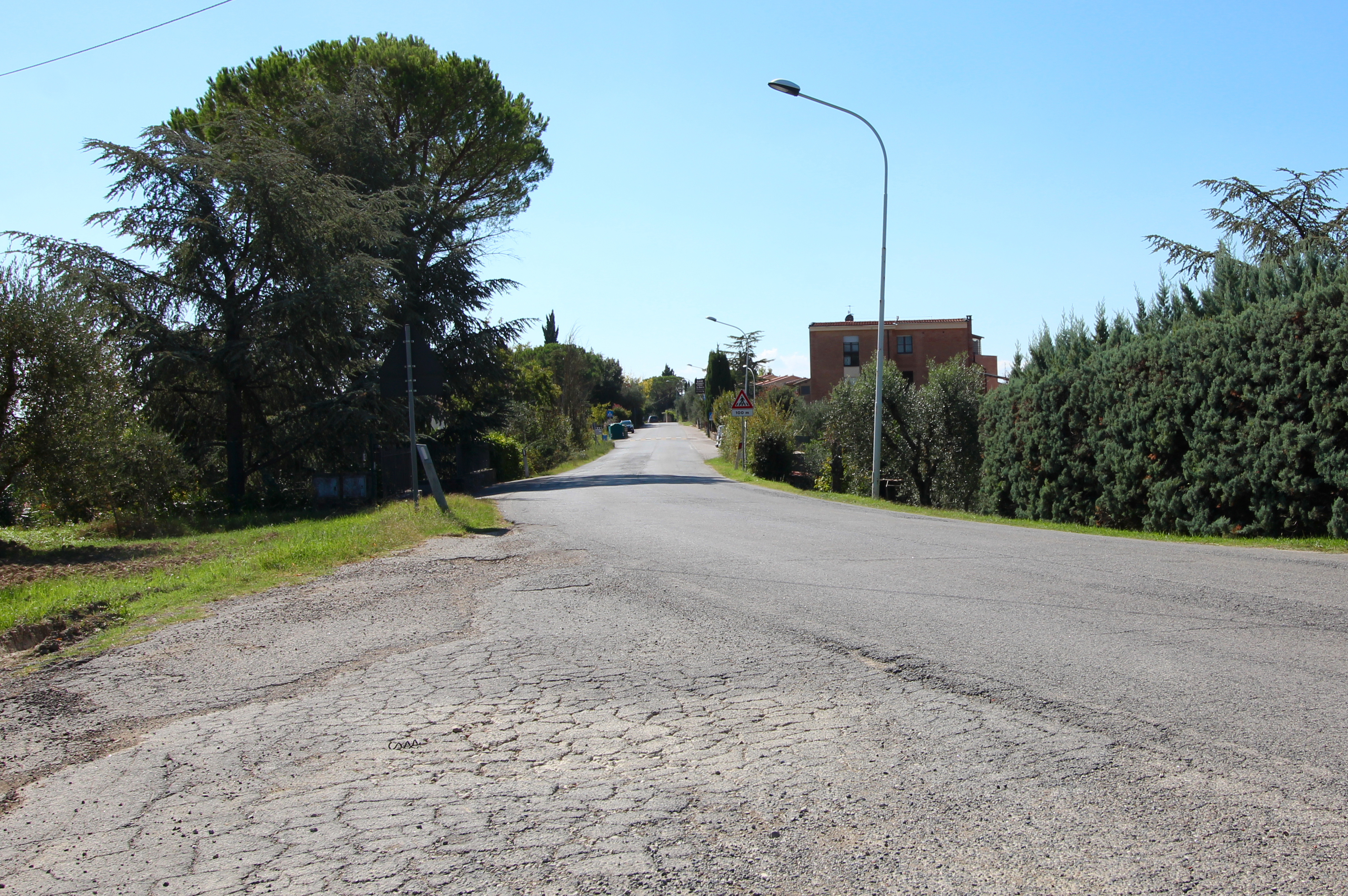 San Piero, hamlet of Castelnuovo Berardenga, Province of Siena, Tuscany, Italy